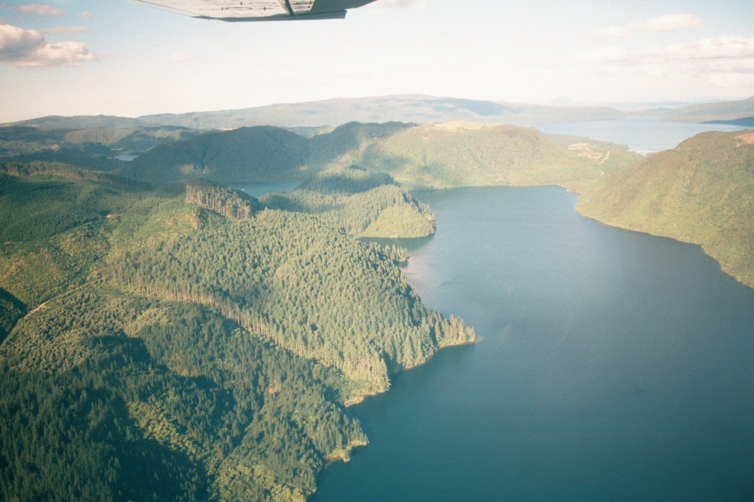 Aerial view of Lake Rotokakahi (Green Lake), Bay of Plenty region, North Island, New Zealand. Taken during a seaplane ride out of nearby Rotorua. Lake Tarawera is in the upper right, and moving towards the upper left, portions of Lake Tikitapu (Blue Lake) and then Lake Okareka are visible.